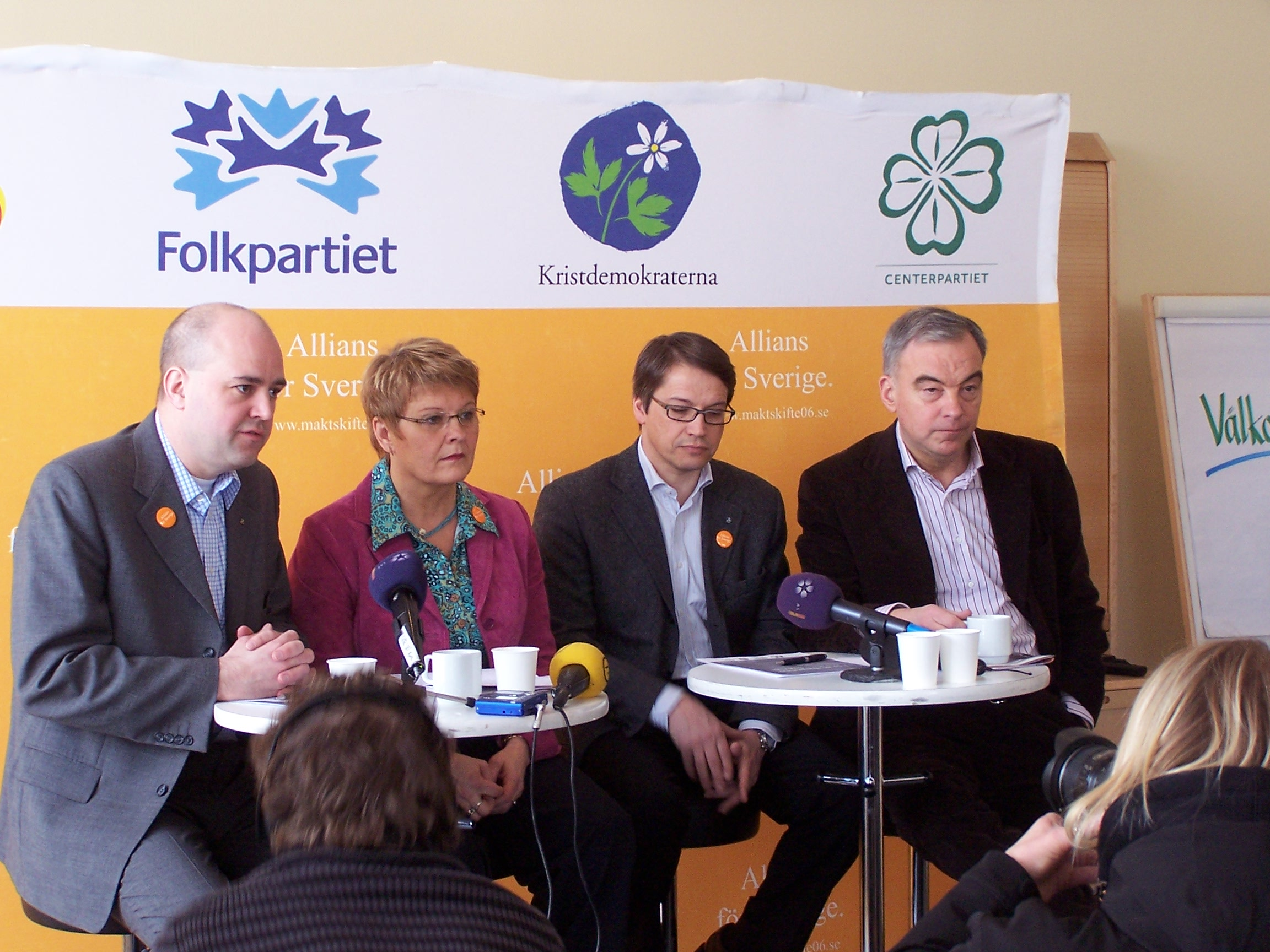 Allians för Sverige on a press conference in Sundsvall, from left: Fredrik Reinfeldt, Maud Olofsson, Göran Hägglund, Lars Leijonborg